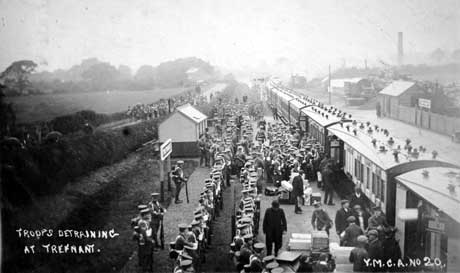 4th Battalion KORL troops detraining at Trefnant Station for annual camp at Caerwys.